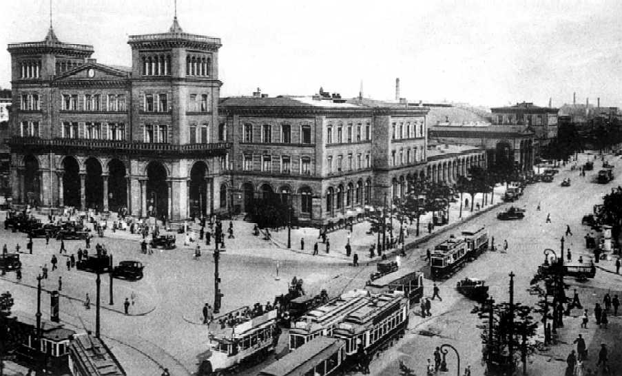 Berlin's historical train station Görlitzer Bahnhof